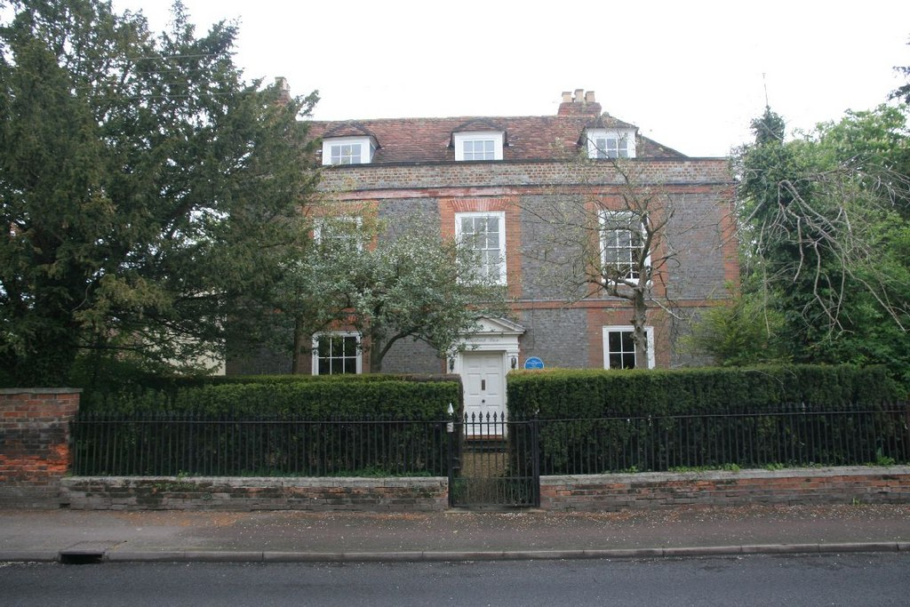 Winterbrook House, former home of the author Agatha Christie. You can just make out the top of the Blue Plaque which has been placed on the house.